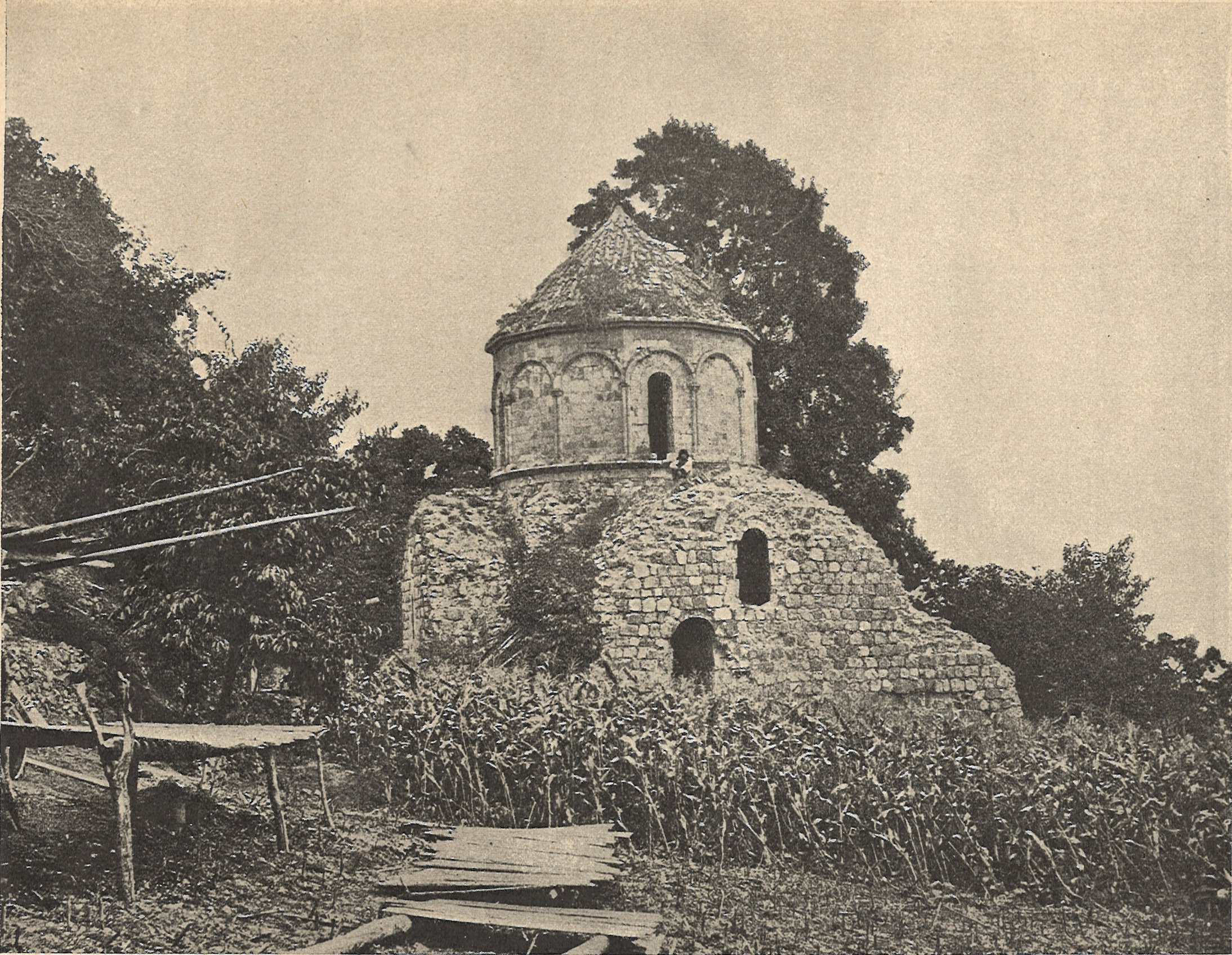 Doliskana church (Marr, 1911)